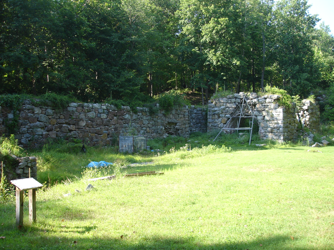 I took this photo of the Civil War Era Furnace at Long Pond Iron Works myself on July 31, 2008.